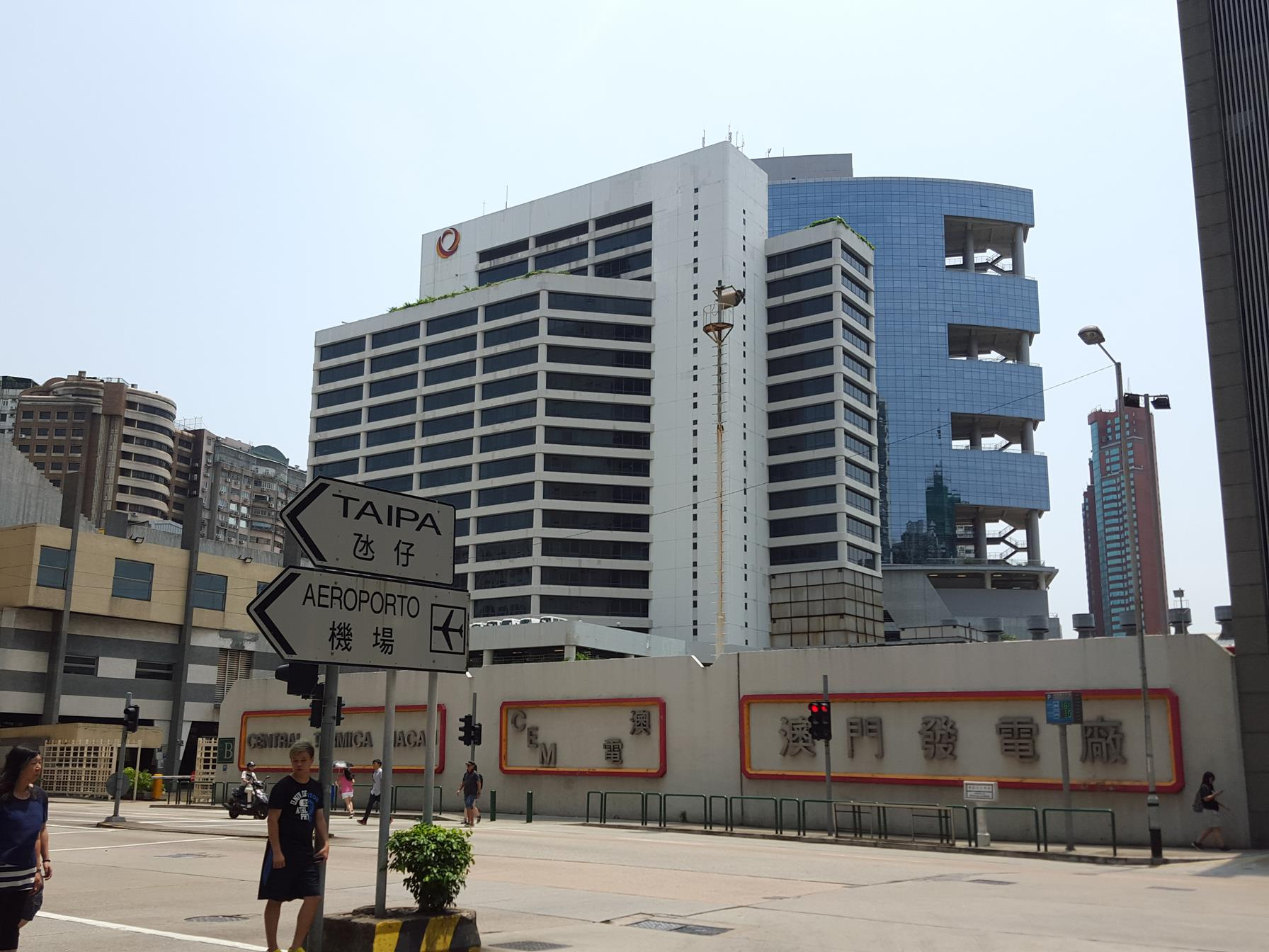 Macau Power House